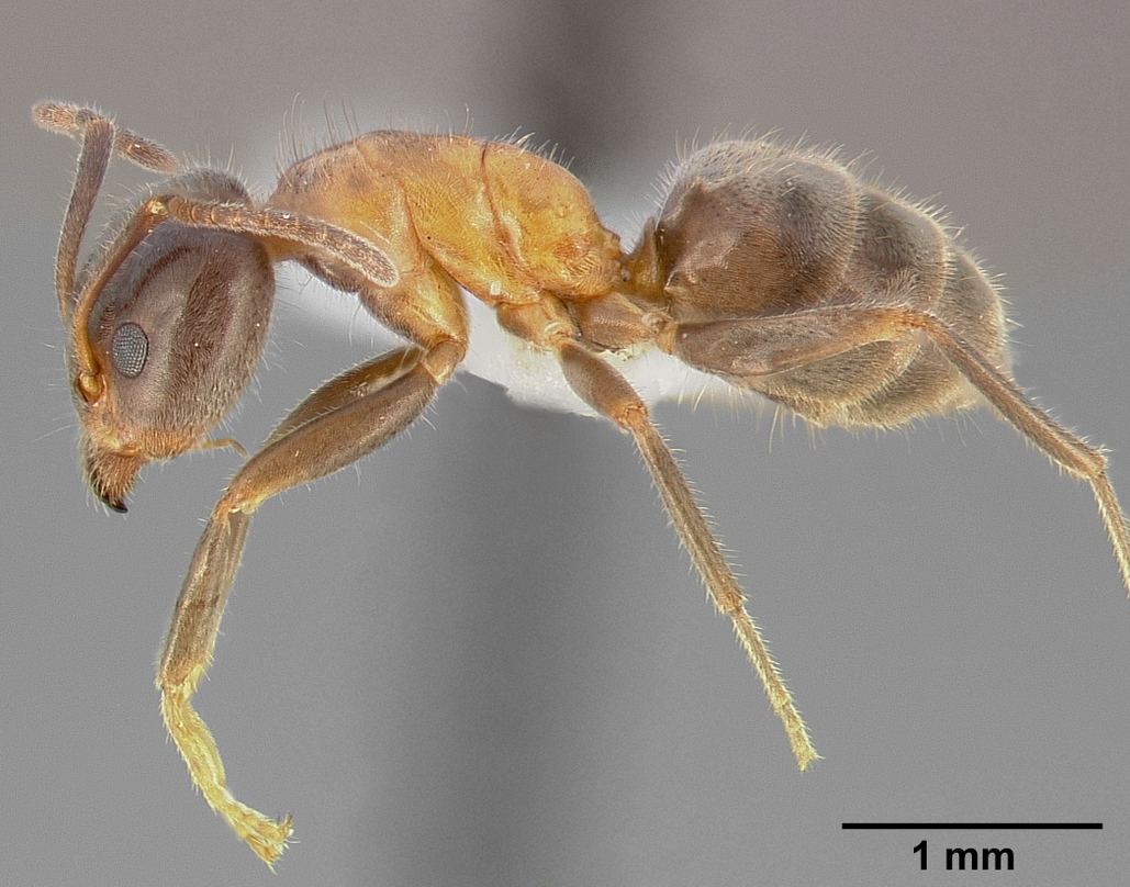 Profile view of ant Liometopum occidentale specimen casent0005328.